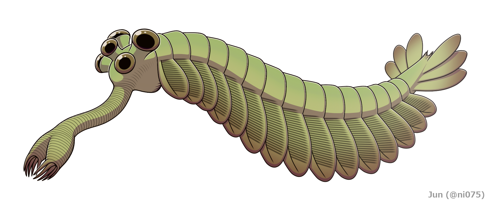 Reconstruction of Opabinia regalis, a cambrian gilled lobopodian (dinocaridid、stem-group arthropod).